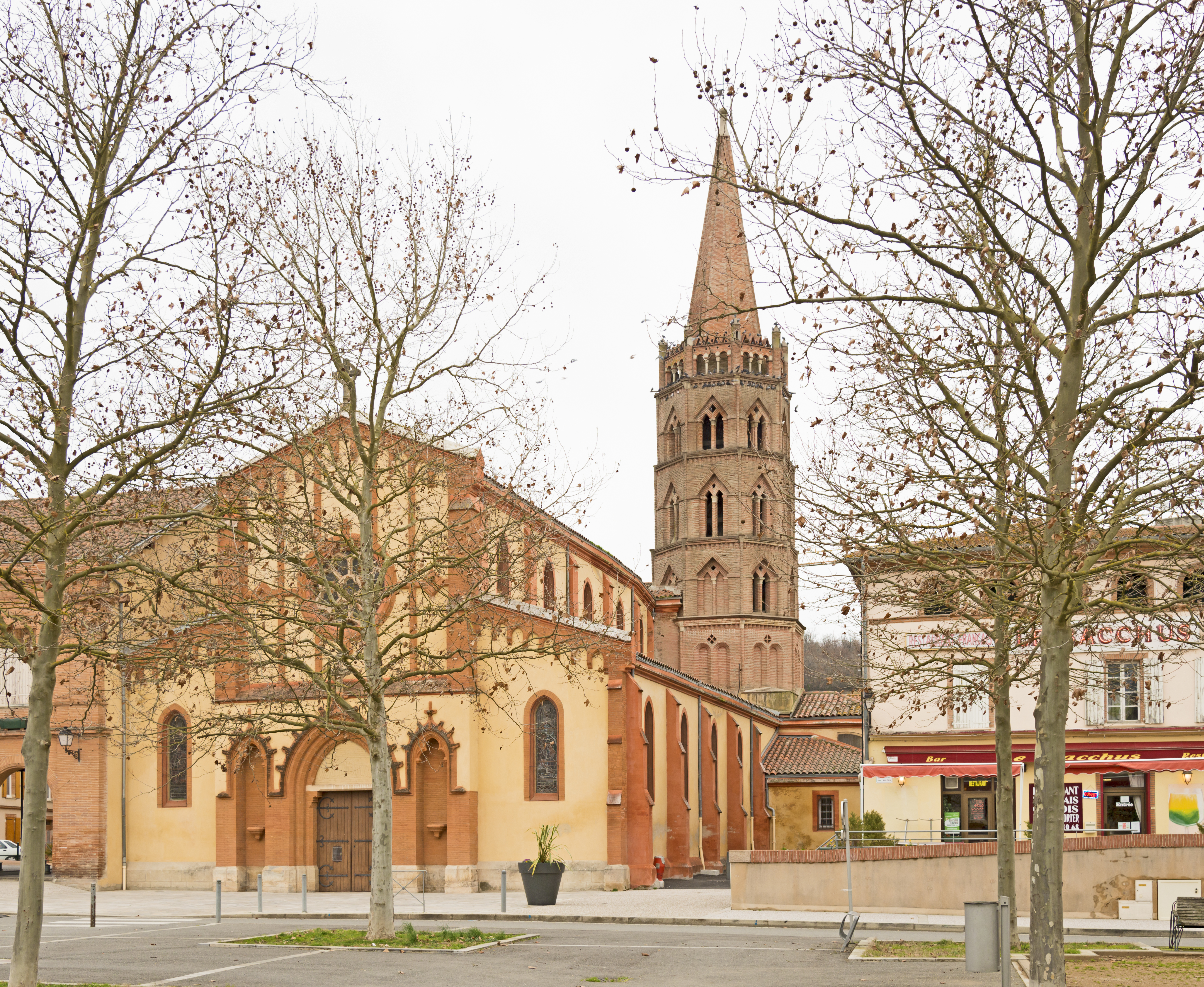 Bessières, Haute-Garonne. Church Saint Jean-Baptiste.